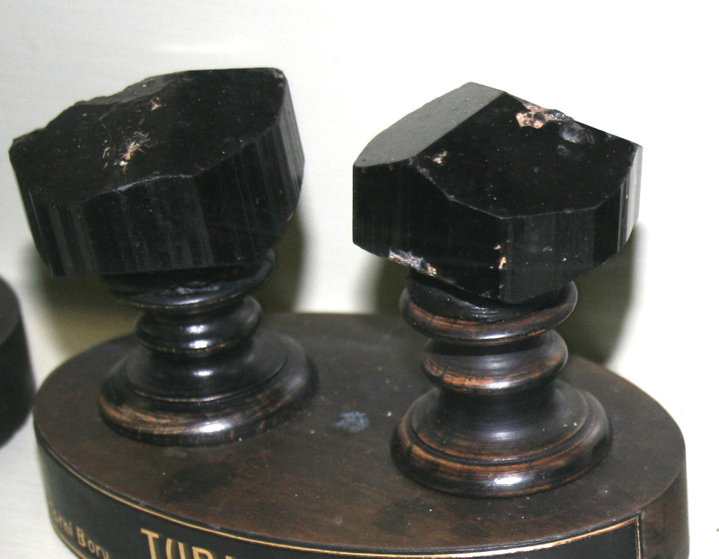 Mineral tourmaline, chemical composition: silicate with variable composition, from collection of National Museum, Prague, Czech Republic, originally from Moravia